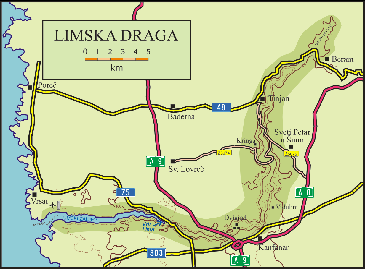 Schematic map of Lim canyon valley (Limska draga), Lim (Croatia)